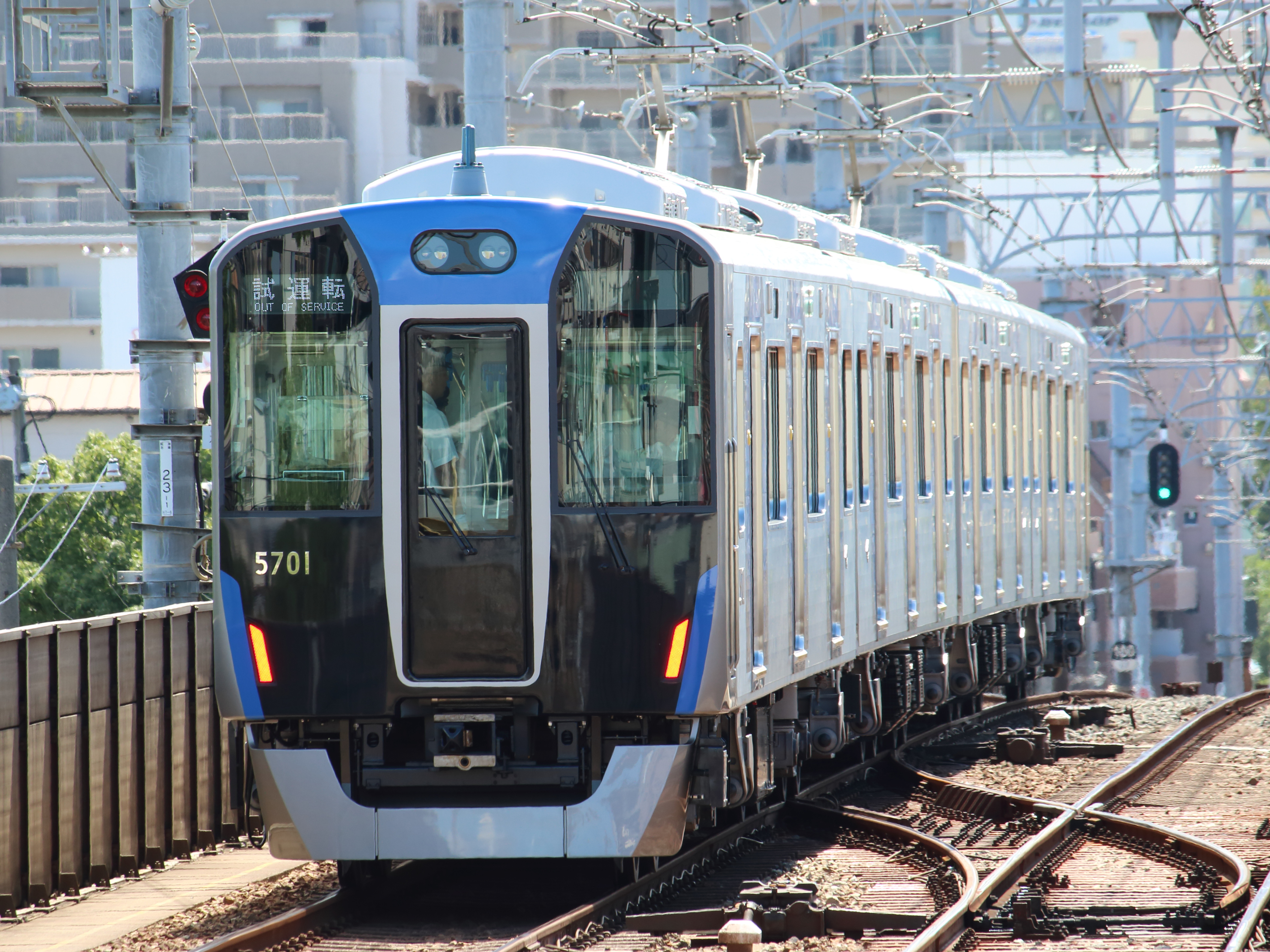 Hanshin Electric Railway 5700 series EMU set 5701 at Oishi Station on a test run